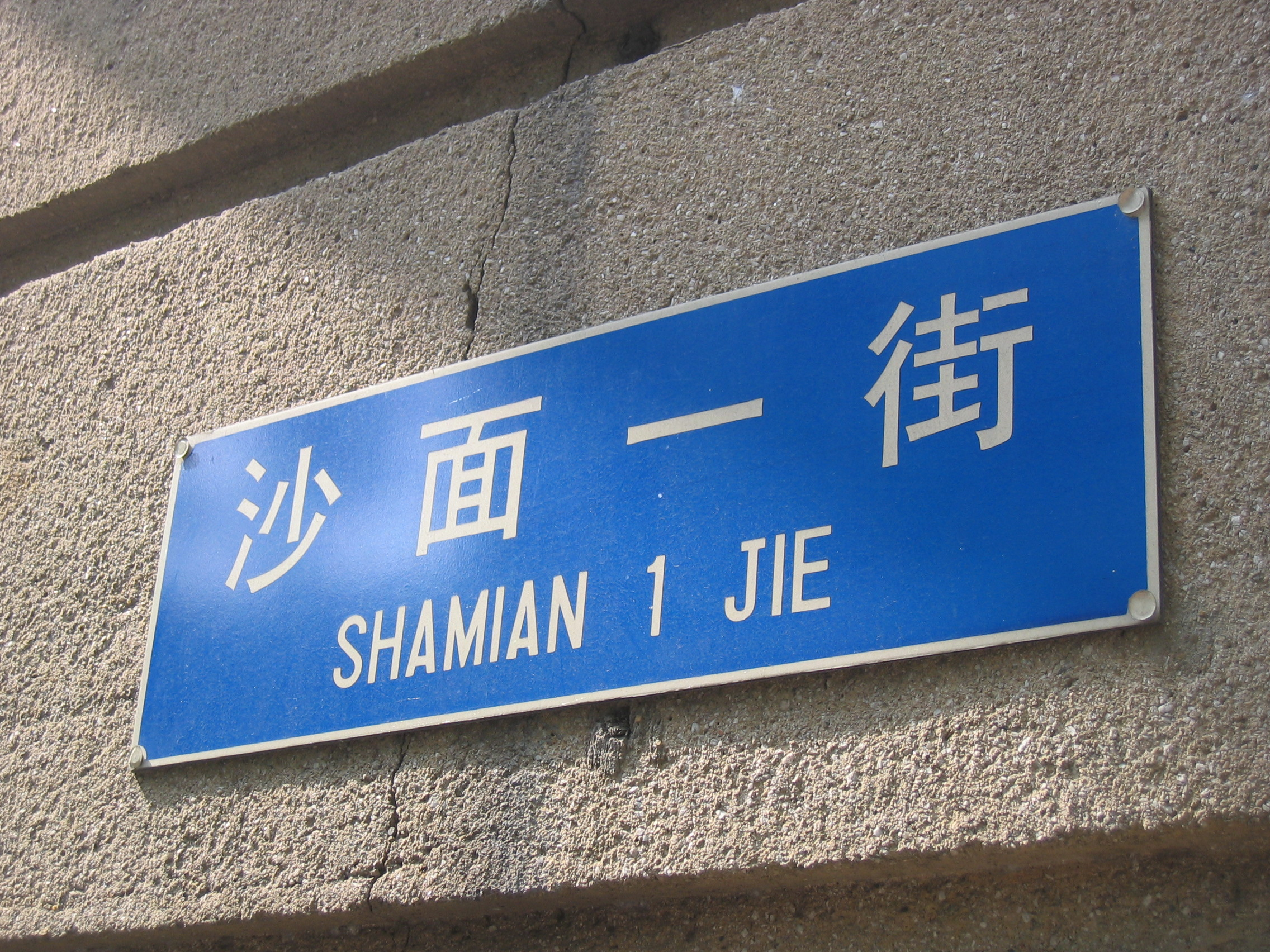 "Shamian street" sign, on the Shamian island in Guangzhou, China.